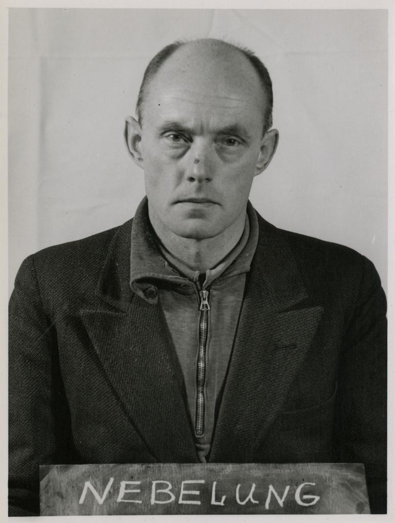 Günther Nebelung (1896-1970) was Chief Justice of Fourth Senate of the People's Court during the Second World War. This photograph of Nebelung (probably as a defendant during the Nurmeberg Trials No. III - the Justice Case) was taken by US Army photographers on behalf of the Office of the U.S. Chief of Counsel for the Prosecution of Axis Criminality (OUSCCPAC, May 1945 - Oct. 1946) or its successor organization, the Office of Chief of Counsel for War Crimes (OCCWC, Oct. 1946 - June 1949).